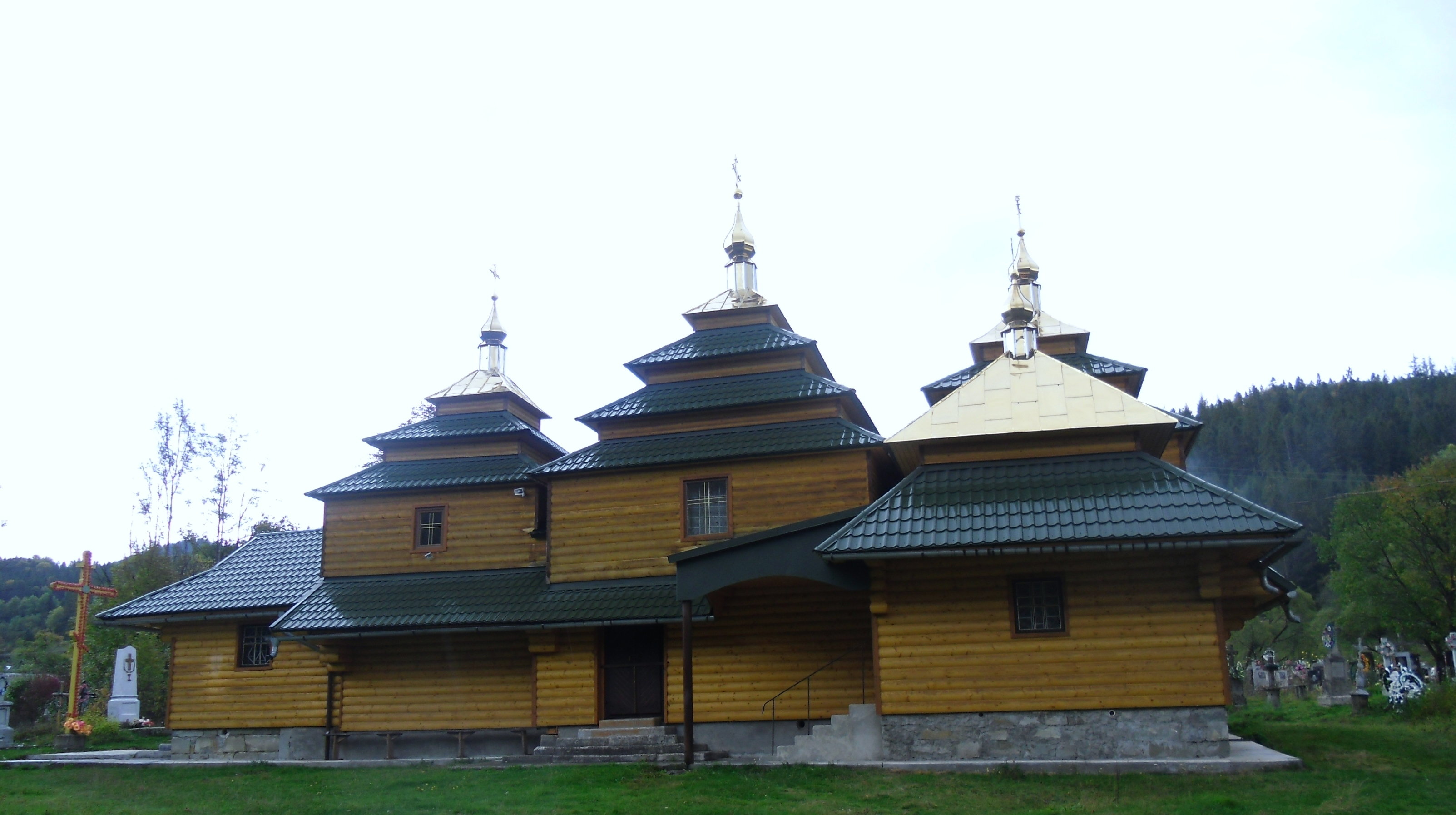 Saint Paraskeva church in Korostiv